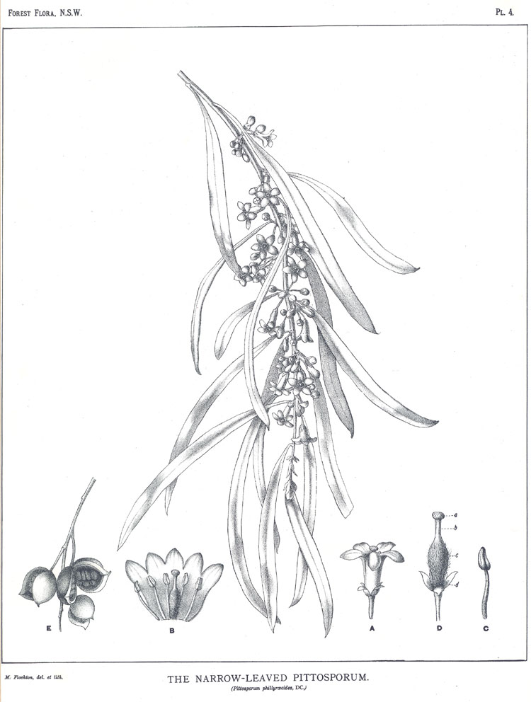 Pittosporum phillyraeoides, Plate 4 from "Forest Flora of New South Wales" by Joseph Henry Maiden (1859–1925)